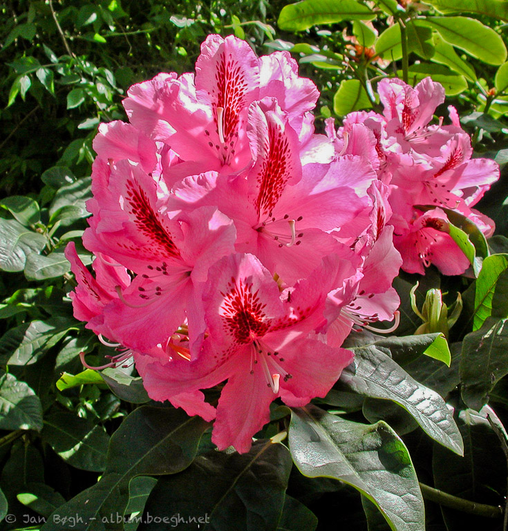 Rhododendron 'Furnivals daughter'